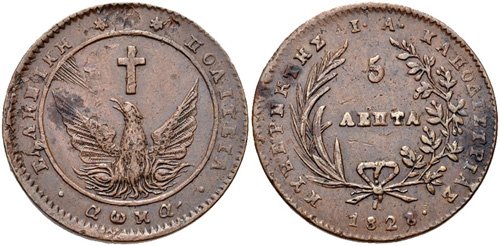 GREECE, First Hellenic Repiblic". Ioannis Antonios Kapodistrias". Governor, 1828-1831. Æ 5 Lepta (29mm, 7.87 g, 6h). Aegina mint. Dated 1828. Phoenix rising from flames, head upturned left, with wings spread; rays to upper left, long cross above / Denomination within wreath. Karamitsos 7; KM 2. Good VF, brown surfaces, digs at 12 o’clock on obverse.